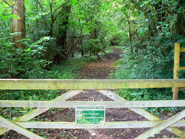 Gateway and path, Lower Woods Nature Reserve Didn't see anyone else in this open all hours reserve on this afternoon visit. A bit soggy underfoot on the paths.